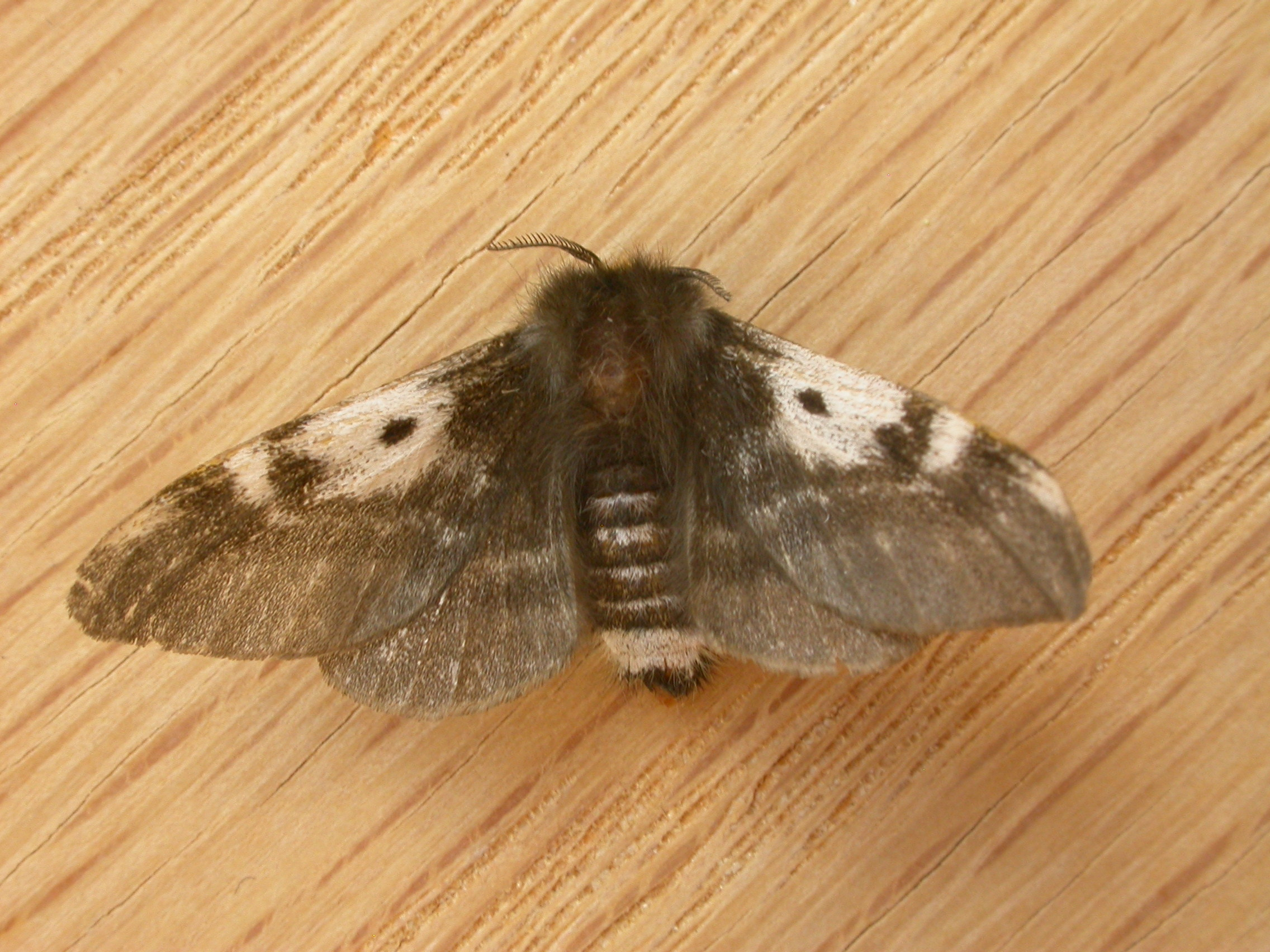 Nataxa flavescens (Walker, 1855), female, to MV light, Aranda, ACT, 14/15 November 2008